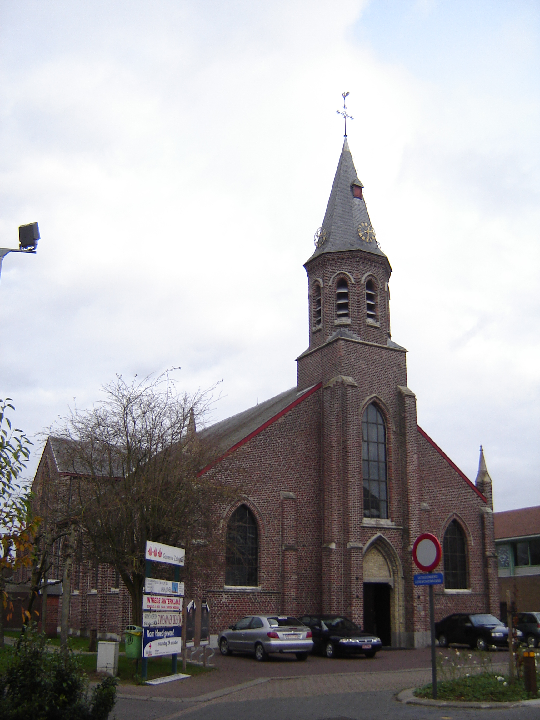 Church of Our Lady in Veldegem. Veldegem, Zedelgem, West Flanders, Belgium